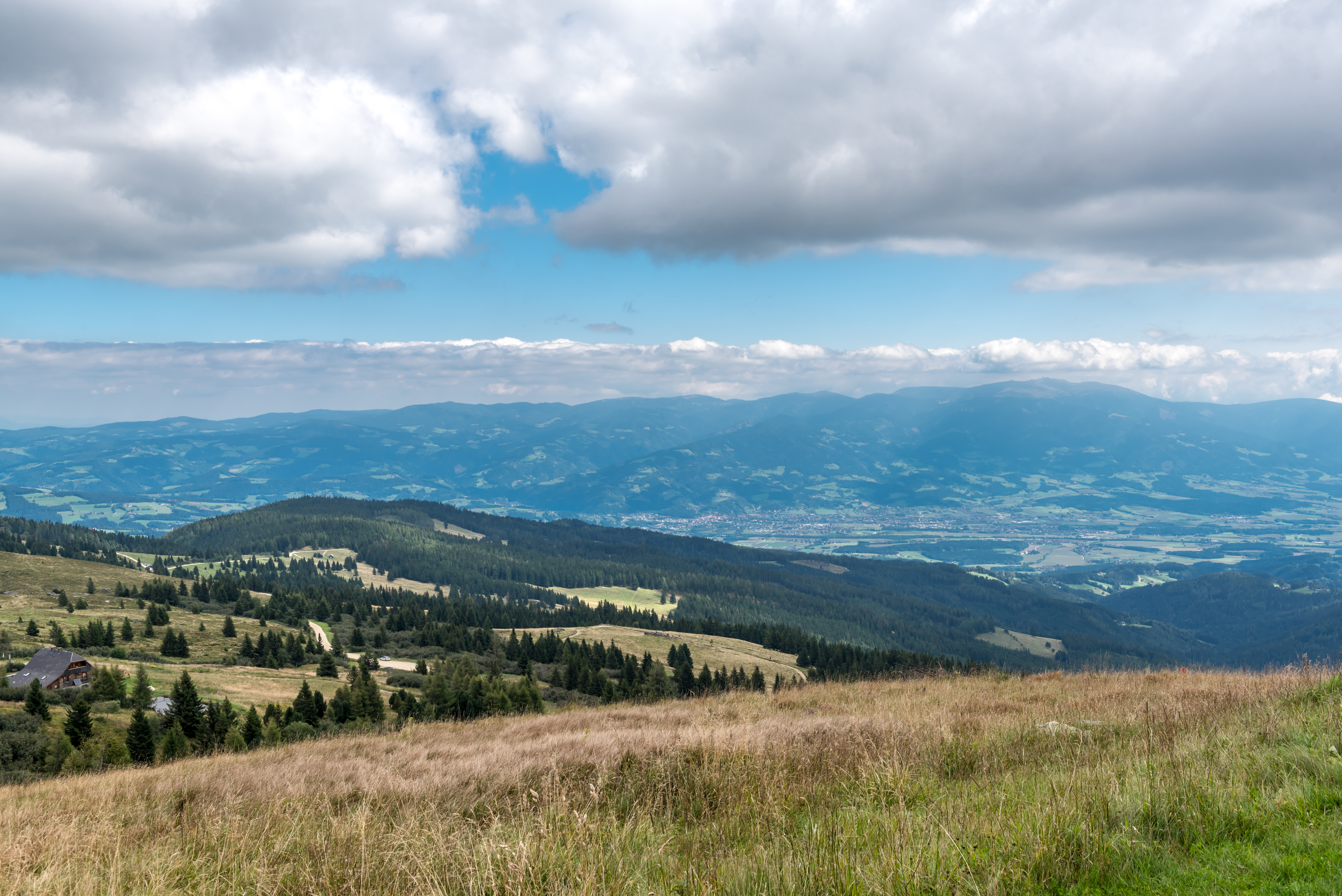 View of Lavanttal from the hiking trail #308 near the Wolfsberg Alpine hut on Saualpe, municipality Wolfsberg, district Wolfsberg, Carinthia, Austria, EU